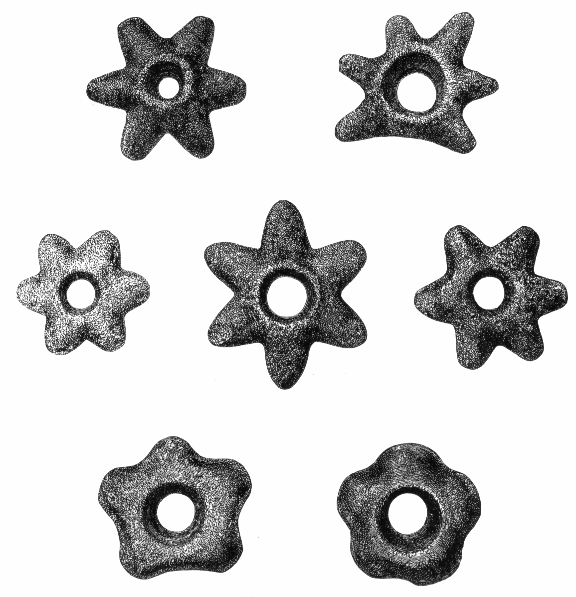 Stars in stone